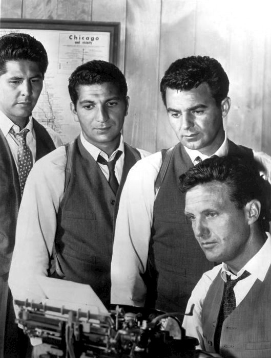 Publicity photo of the cast of the television program The Untouchables. From left: Abel Fernandez, Paul Picerni, Nicholas Georgiade, (seated) Robert Stack.